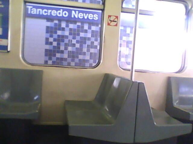 Into Tancredo Neves Station of METROREC Recife - Pernambuco